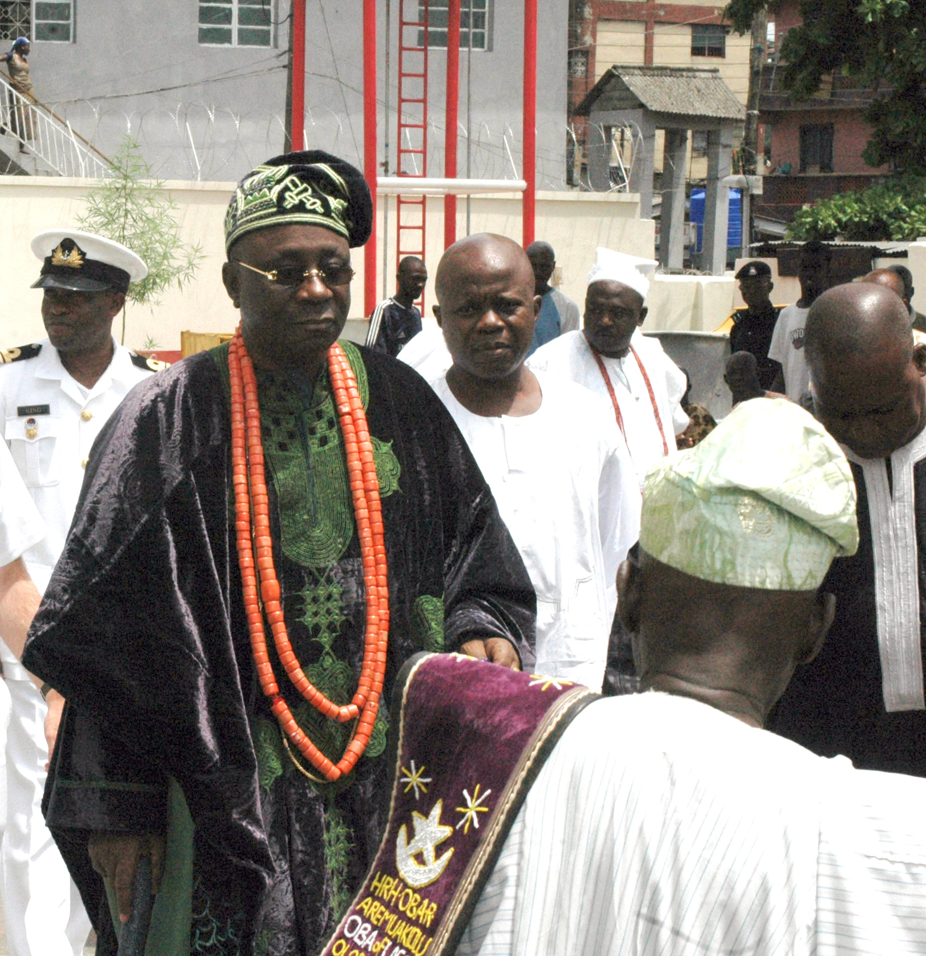 Portrait of Lagos Oba Rilwan Akinlolu. Crop of: 060602-N-8637R-006 Lagos, Nigeria (June 2, 2006) - A delegation of Naval Commanding Officers representing Navies from around the world, are led in procession behind the Obo of Lagos Nigeria by Commander, Destroyer Squadron Six Zero (COMDESRON-60), Commodore Tom Rowden. The Oba is a spiritual leader in Nigerian culture with the respect of royalty. Rowden is in Nigeria aboard the guided-missile destroyer USS Barry (DDG 52) to participate in the Golden Jubilee, celebrating the 50th anniversary of the Nigerian Navy. Barry is currently operating in the Gulf of Guinea in support of Commander, Naval Forces Europe strategic initiative of strengthening enduring and emerging partnerships. U.S. Navy photo by Journalist 1st Class Kurt Riggs